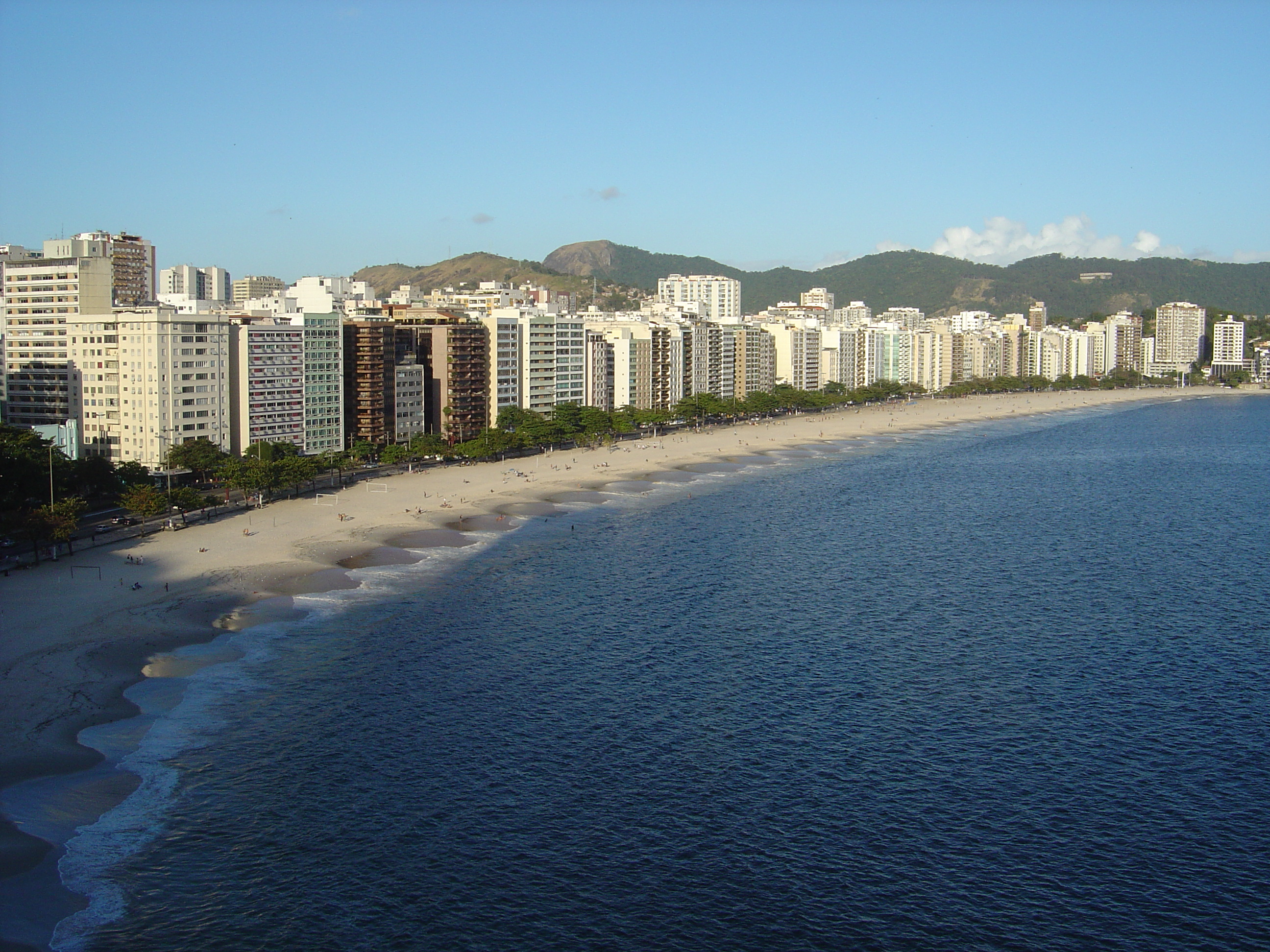 Icaraí Beach, Niterói, Brazil